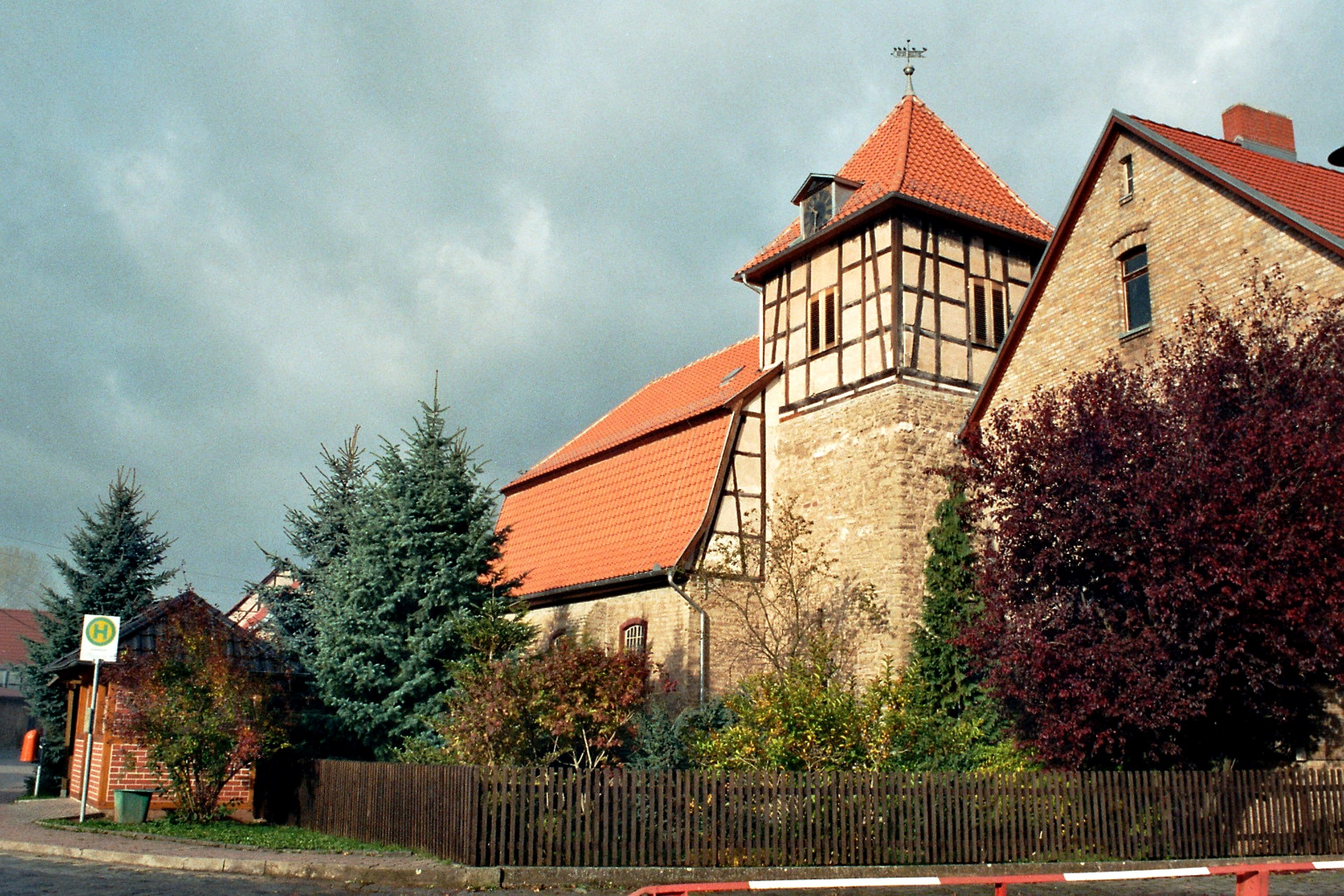 Kleinleinungen (Südharz), the village church St. Martin This is a photograph of an architectural monument. 81689